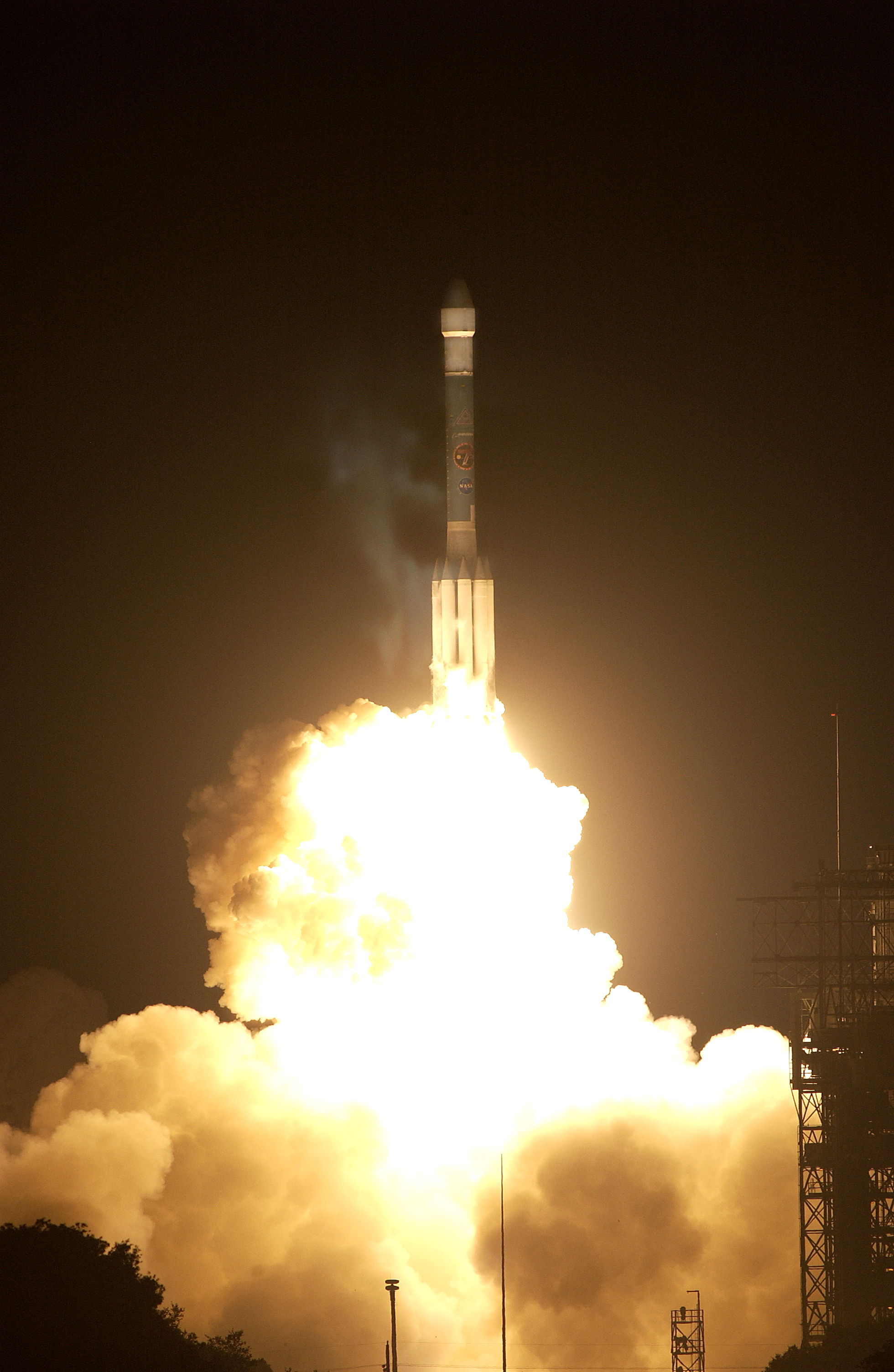 The Space Infrared Telescope Facility launches from Cape Canaveral Air Force Station in Florida on Monday, Aug. 25, 2003, at 1:35 a.m. EDT (Sunday, August 24, at 10:35 p.m. PDT).